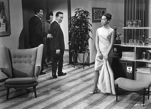 Linda Low (Nancy Kwan) and other cast members in Flower Drum Song. Sammy Fong (Jack Soo) is at the far left.